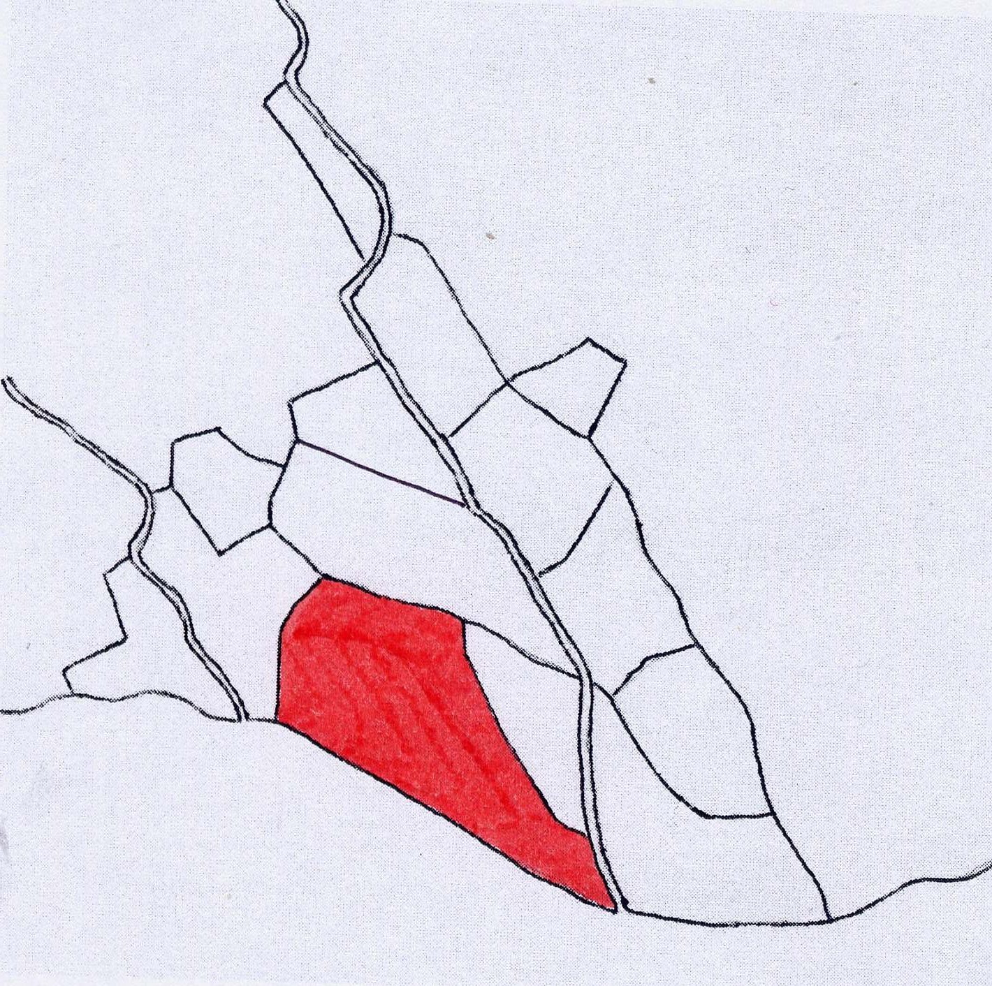 Novy Sochi microdistrict in Tsentralny City district of Sochi